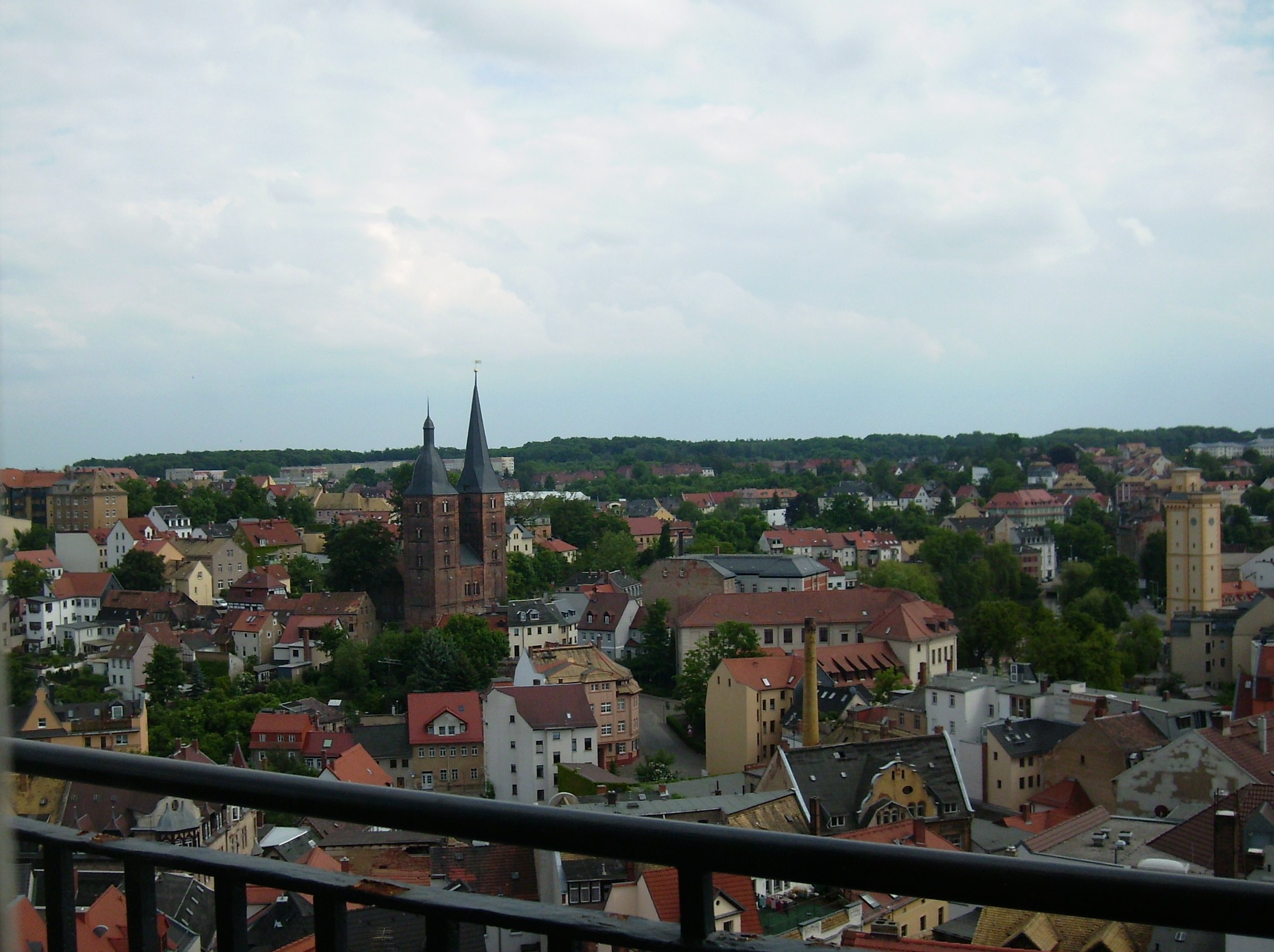 View form the steeple of St. Bartholomew Church in Altenburg (Thuringia) with the two towers of the Rote Spitzen (remains of a monastery) to the left and the Kunstturm to the right